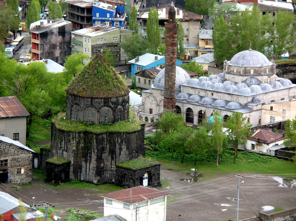 Church of the Holly Apostles and mosque, Kars, Turkey.